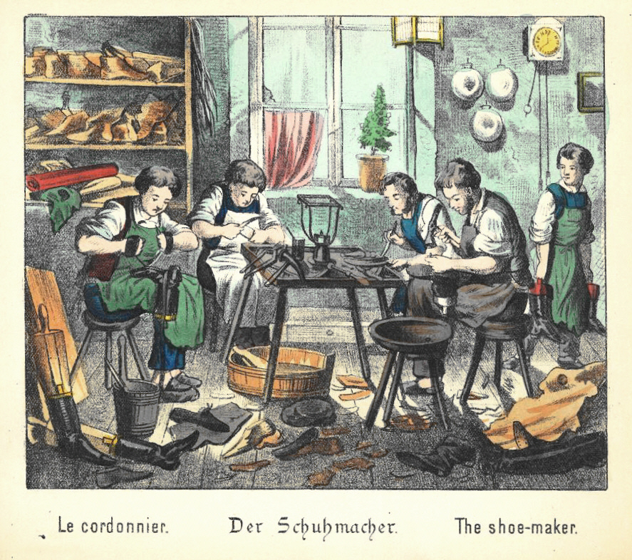 The shoe-maker